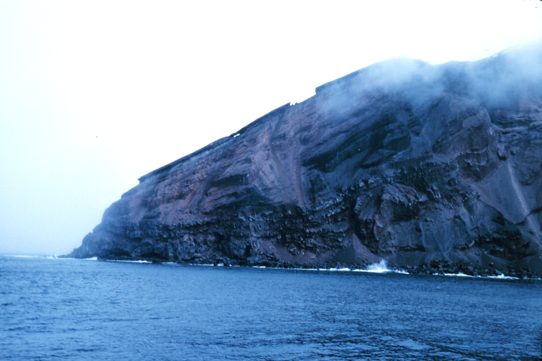 Bridgeman Island, South Shetland Islands, Antarctica